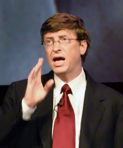 Bill Gates delivering key note at IT Forum 2004 in Copenhagen